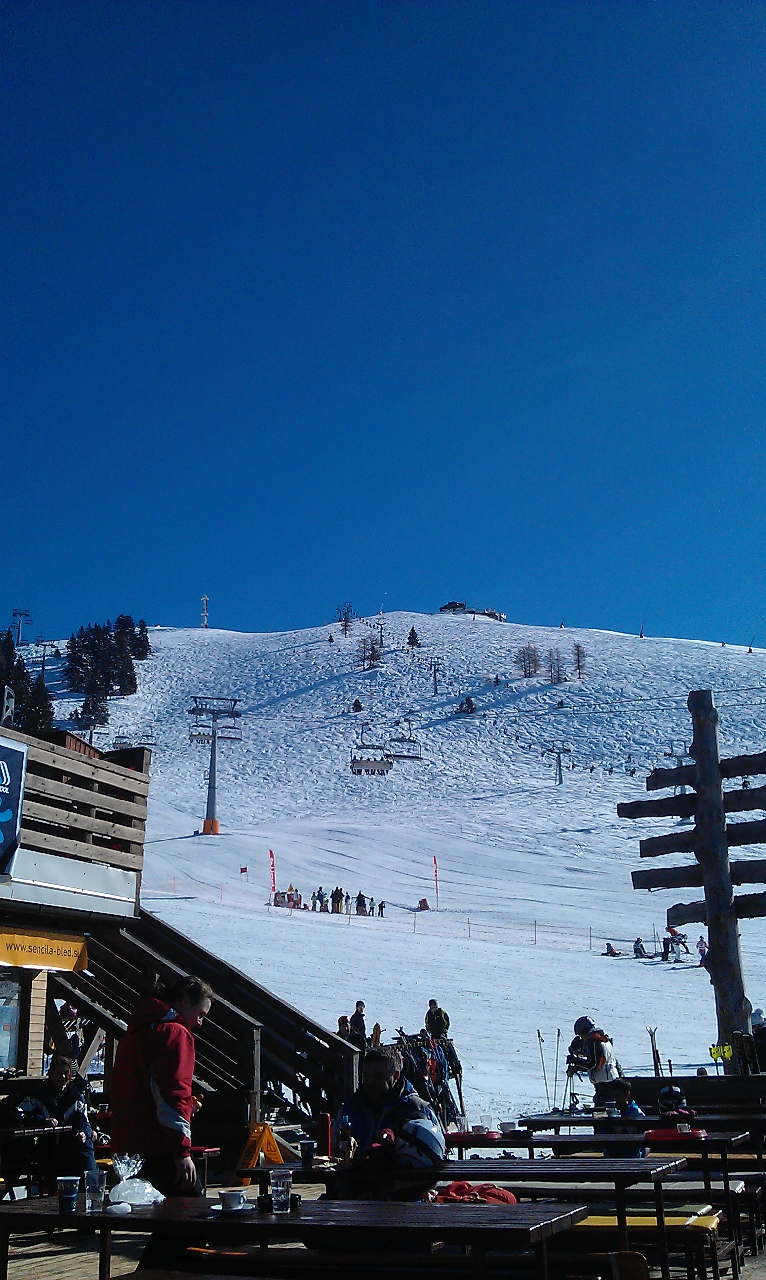 View from Brunarica Soncek